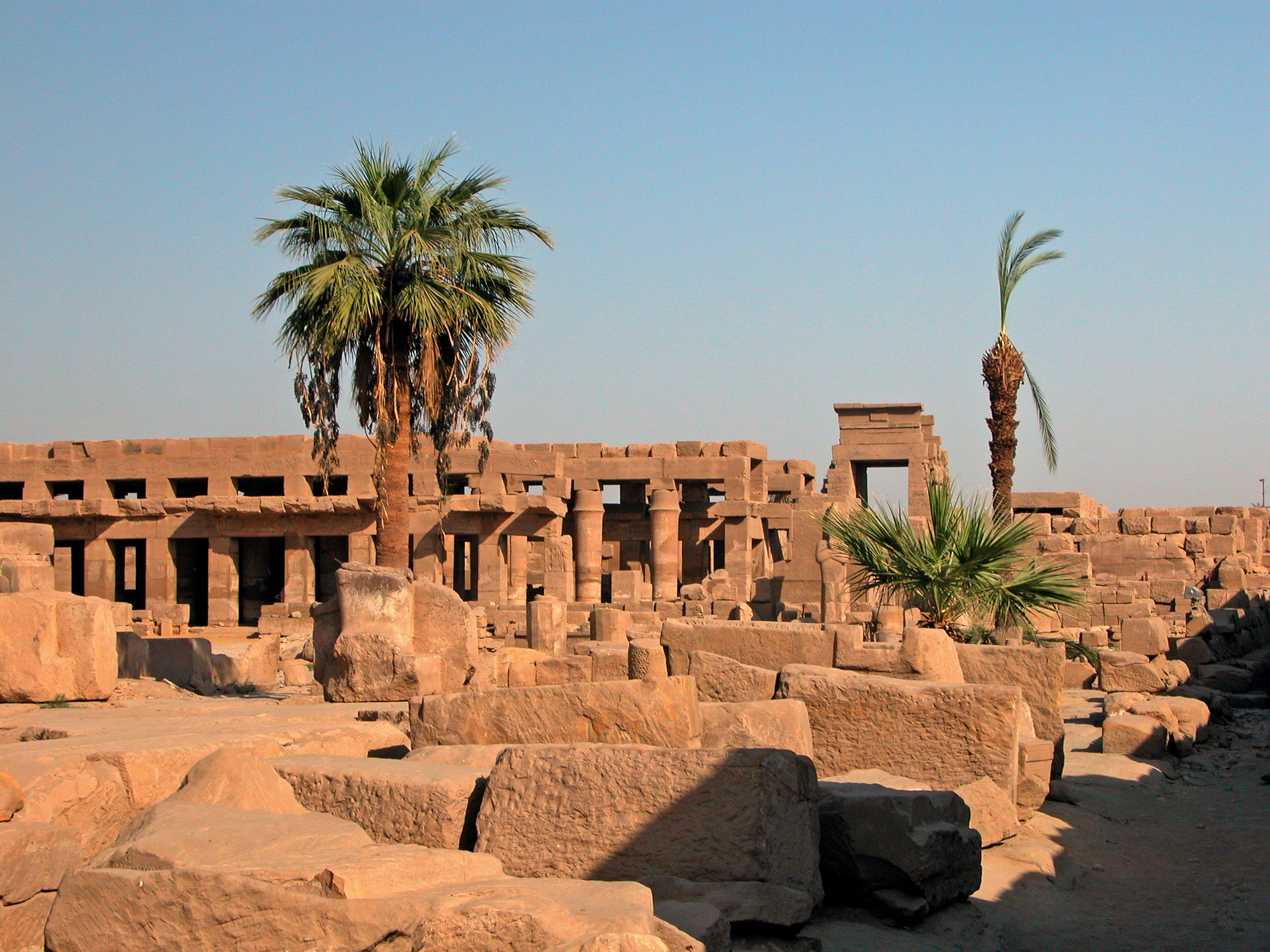 Festival Hall of Tuthmosis III, Karnak Temple, Luxor, Egypt